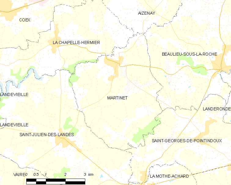 Map of French municipality Martinet